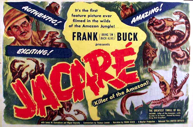 Lobby card from the 1942 Frank Buck Film Jacare. There doesn't appear to be a copyright notice on either copy of the card I've viewed. However, both files are relatively small and either/both may have been cropped. Have licensed this as copyright not renewed to be certain of a proper license for the card. A search for copyright renewal for the film and for artwork was done for the years 1969 and 1970. There were no listings in either category for Jacare or Mayfair Productions. There's no evidence that copyright continues to be claimed on this material.